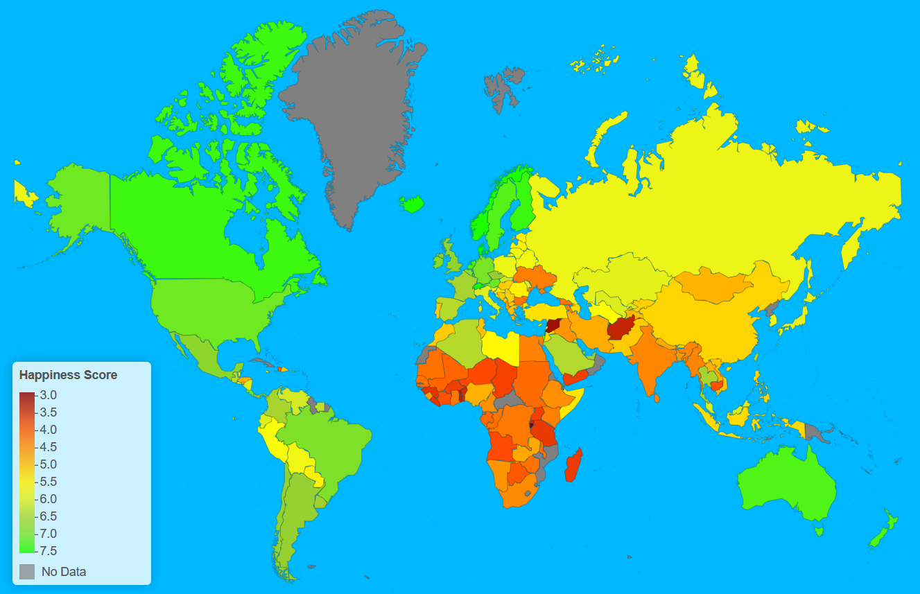 Static version of the World Happiness Map